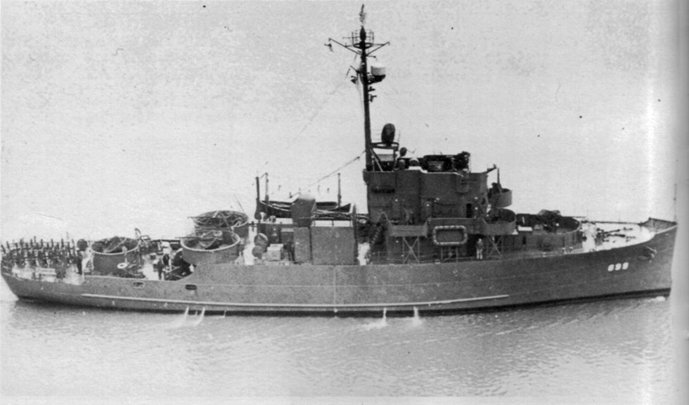 Bureau of Ships photo from Allied Escort Ships of World War II by Peter Elliott